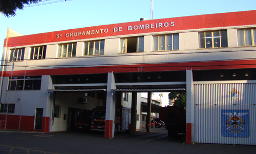 Headquarters of the 5th GB (Fire Department) of Military Police of Parana State - Brazil.